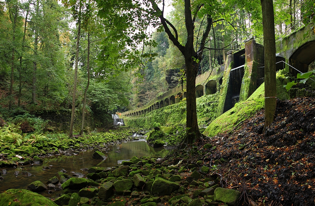 Lohmen, hydroelectricity plant "Niezelgrund" on the river Wesenitz, technical monument (built 1887/1910).